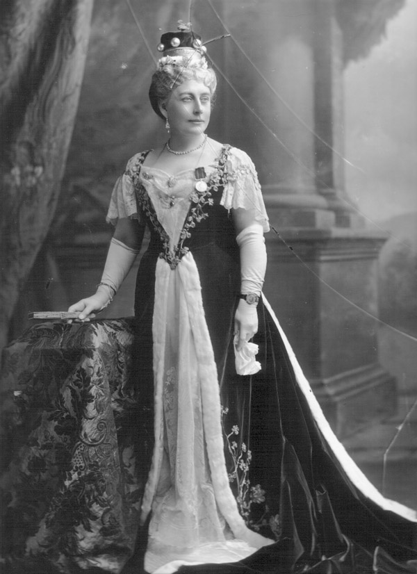 Lady O'Hagan (d 1921), née Alice Mary Towneley. Photographed 11 August 1902. Costume: Coronation robes: "...underdress of old lace, embroidered with gold, [...] the same gold embroidery on the lace sleeves" (The Queen, 16 August 1902, p 257b).